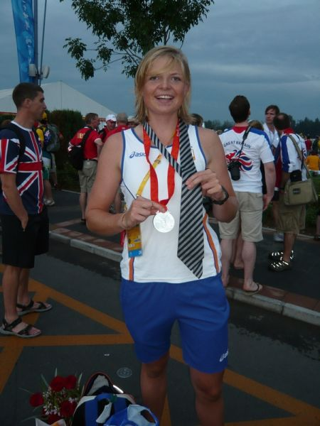 Roline wins silver at the Olympics